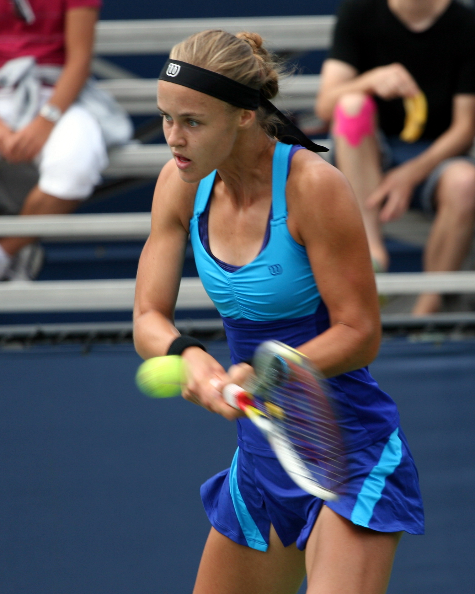 U.S. Open Thursday, Aug. 29, 2013